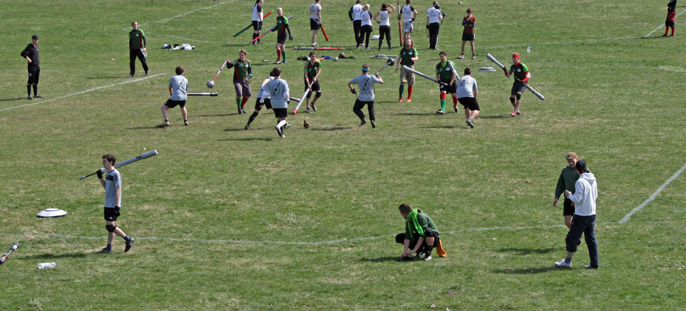 jugger game